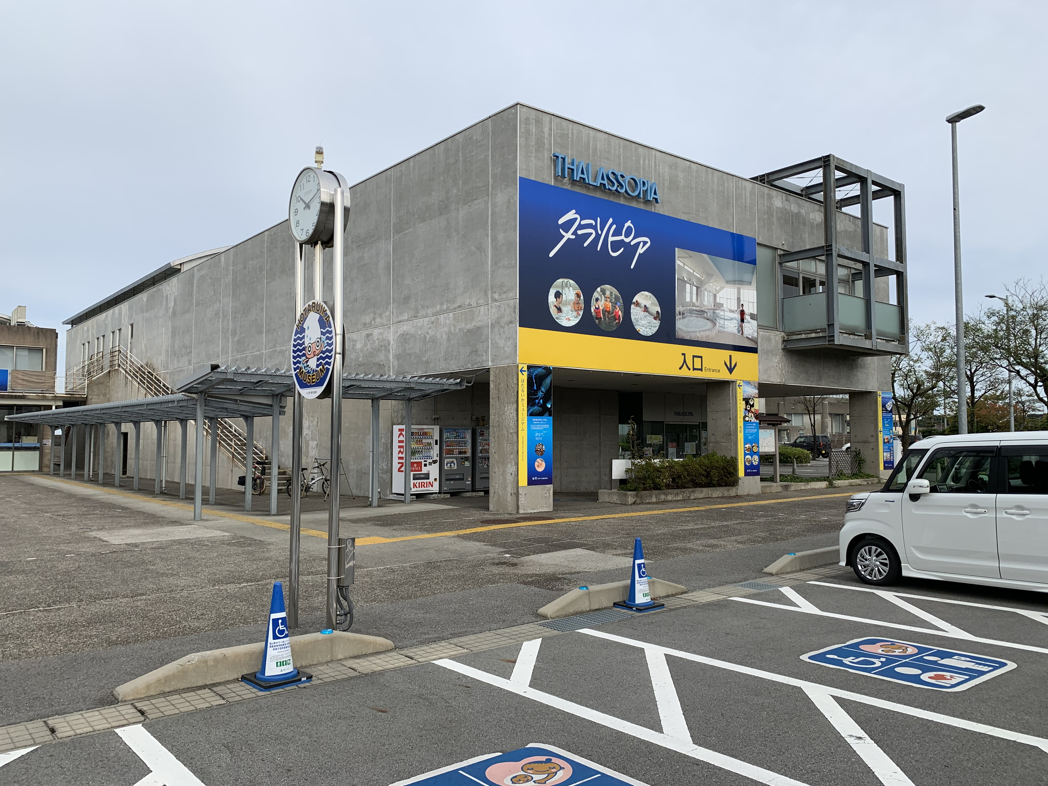 Thalassotherapy facility "Thalassopia" at Michinoeki Wave Park Namerikawa in Namerikawa City, Toyama Prefecture, Japan